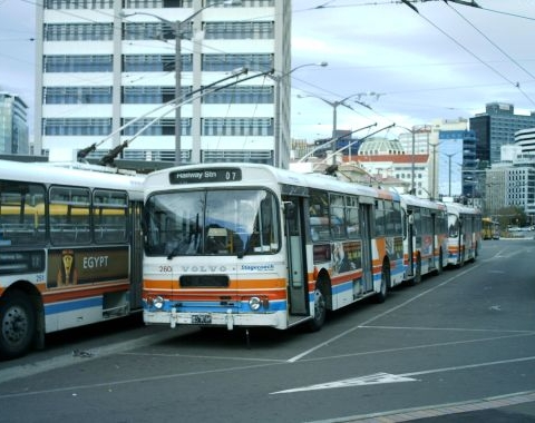 Volvo trolleybuses in Wellington, New Zealand.